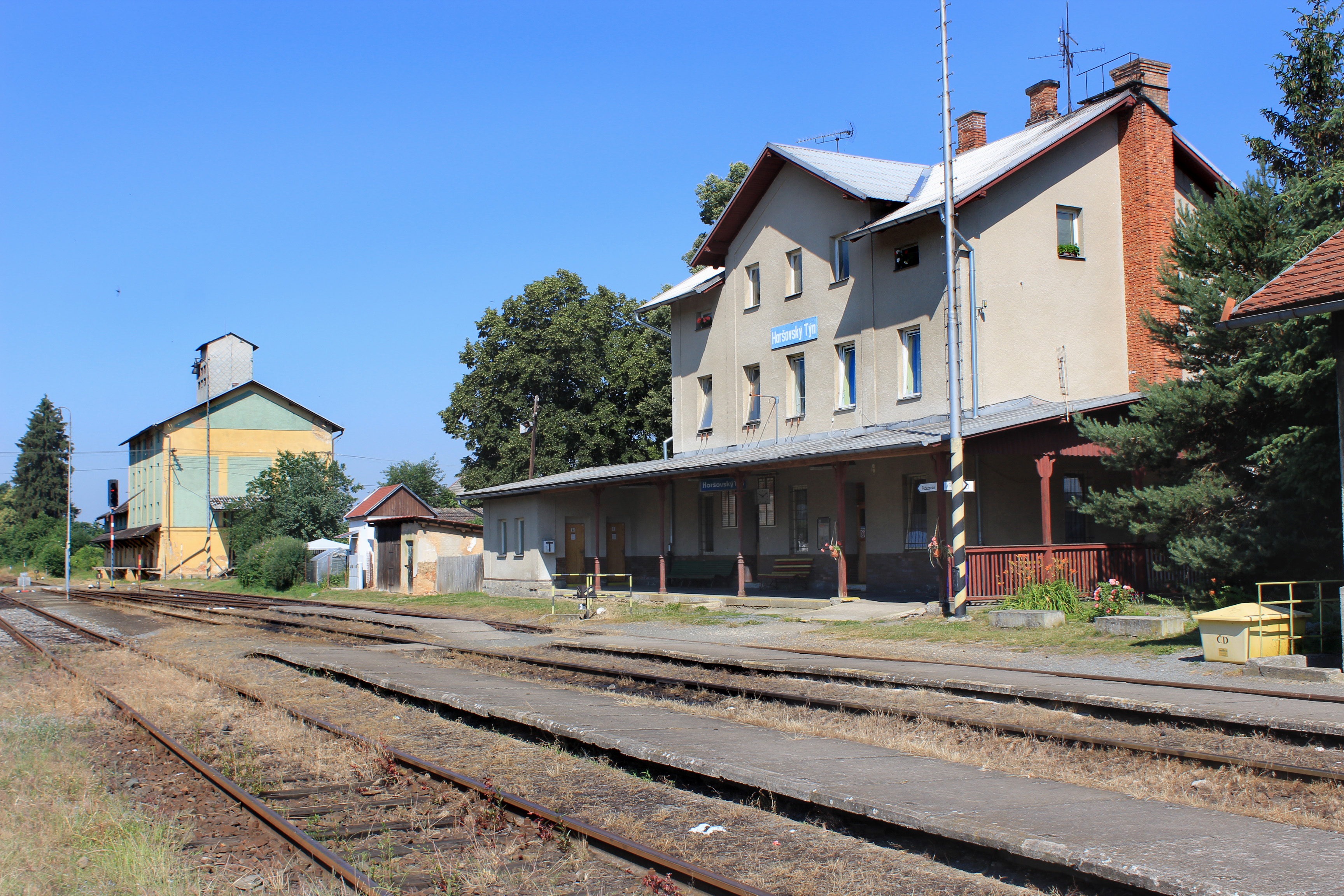 Train station in Horšovský Týn, Czech Republic.